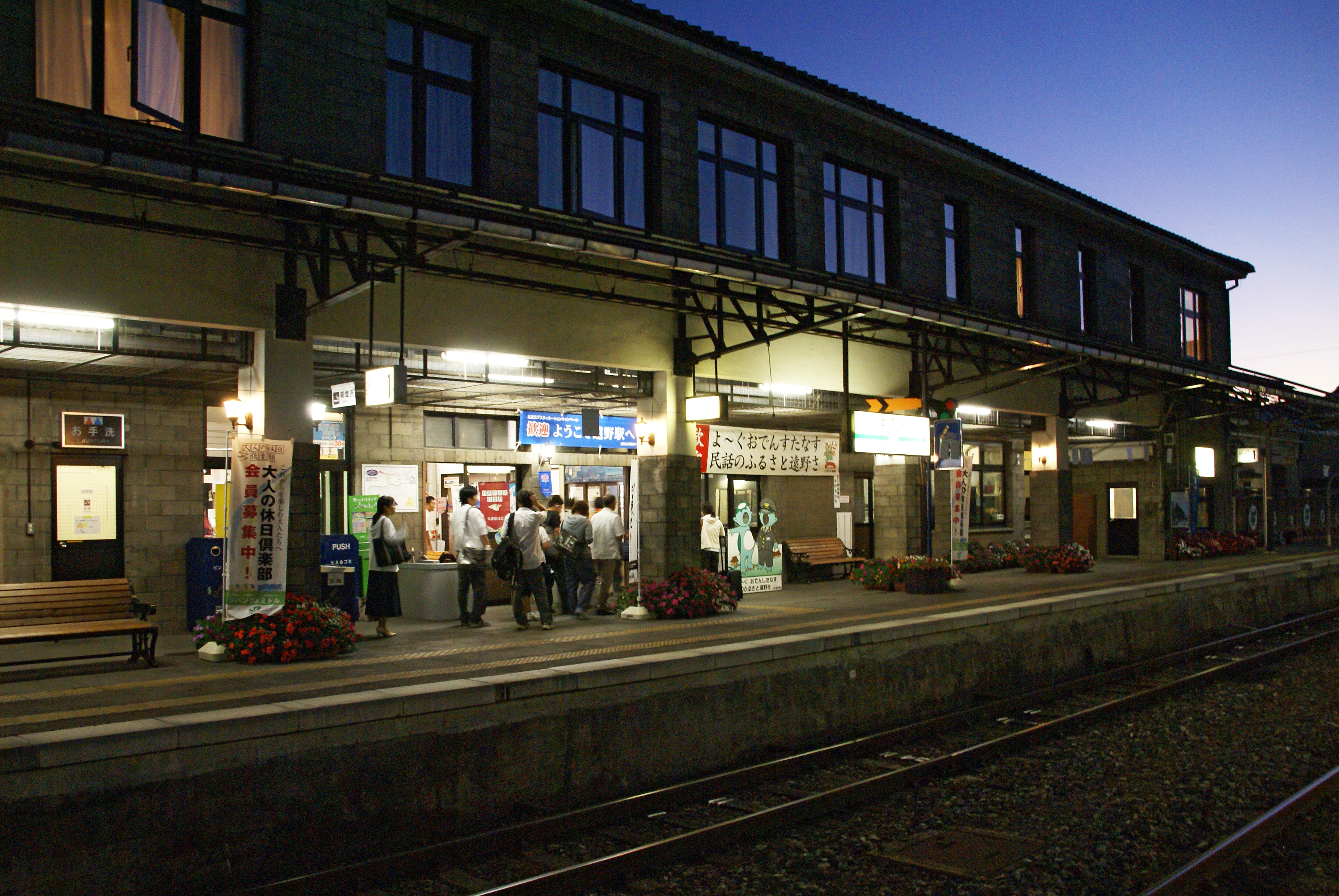 Tōno Station in Tono, Iwate prefecture, Japan